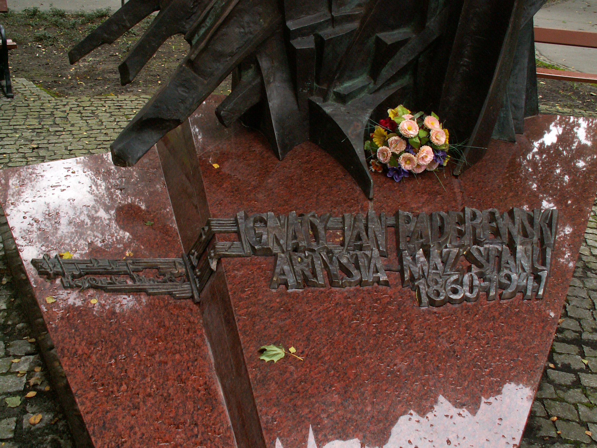 Paderewski monument (detail),Strzelecki Park,Krakow,Poland